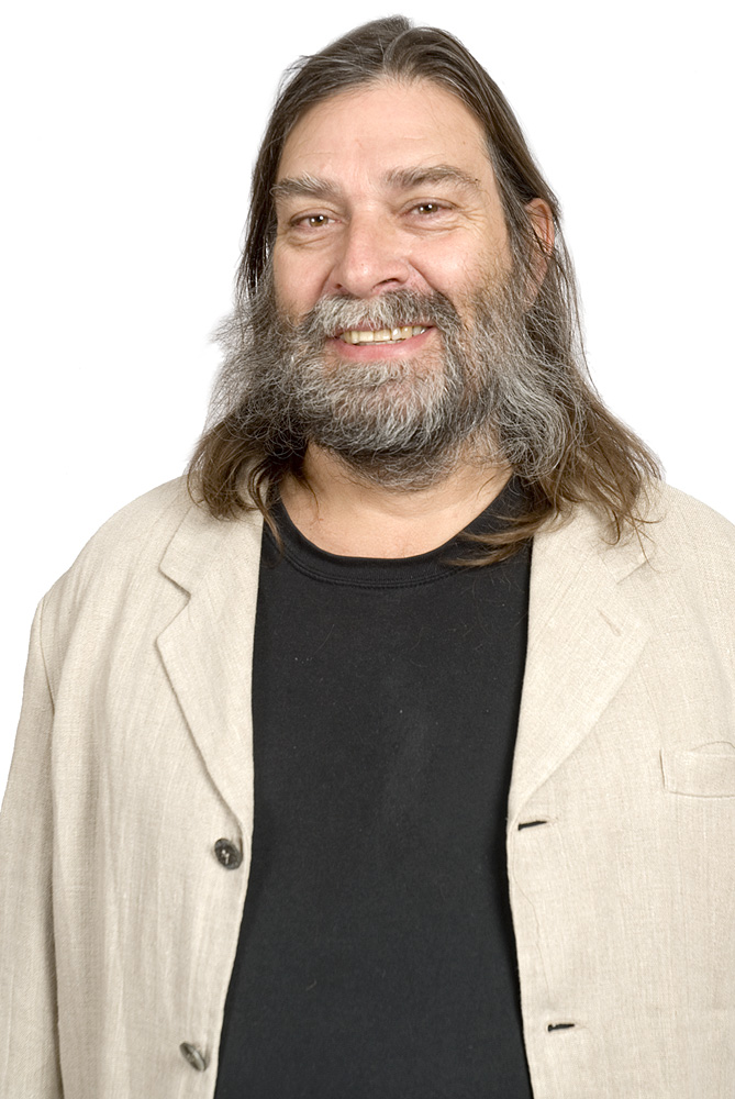 The Swedish politician Anders Nordin